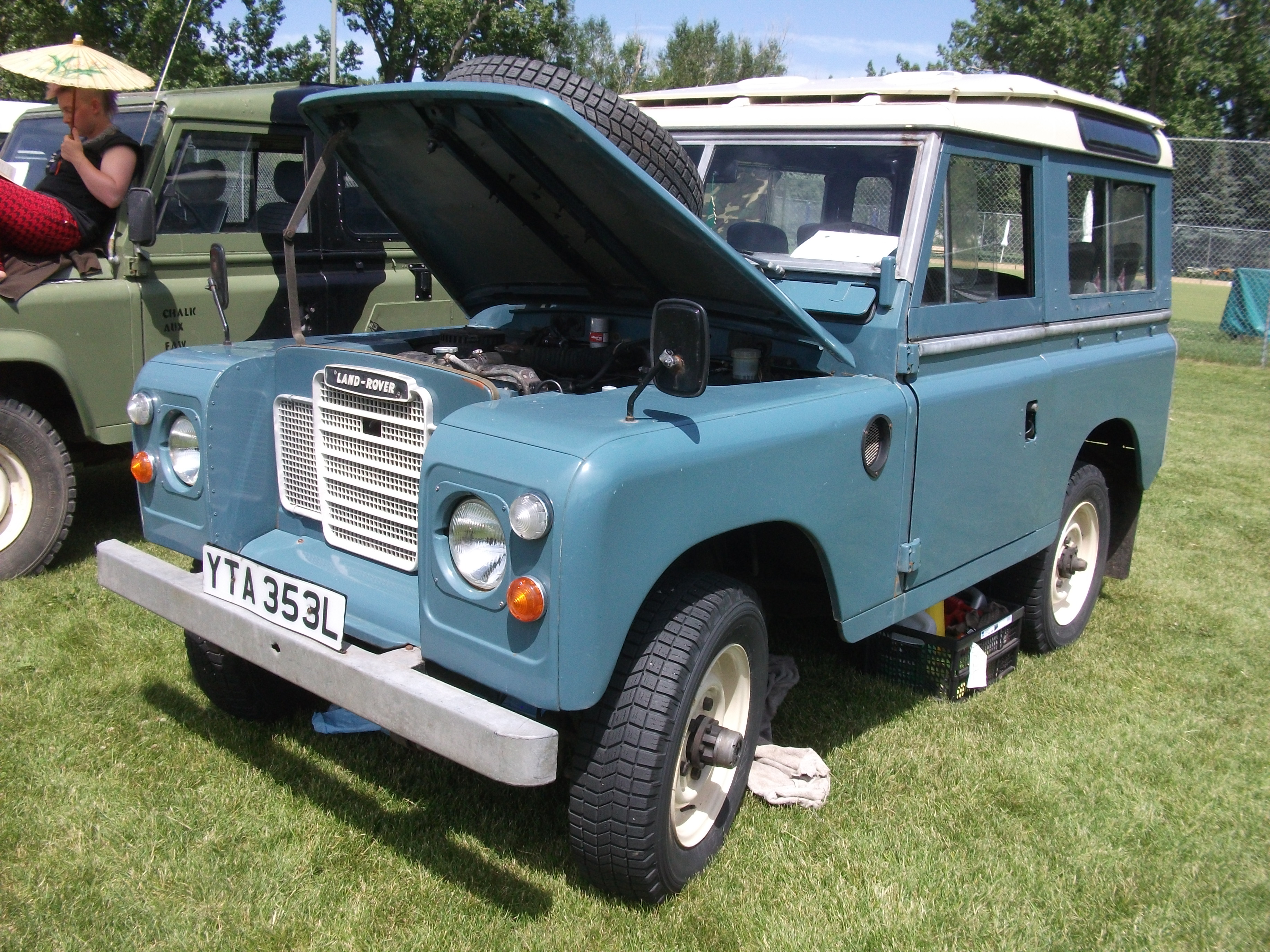 1973 Land Rover Series 3 with the 88" wheelbase